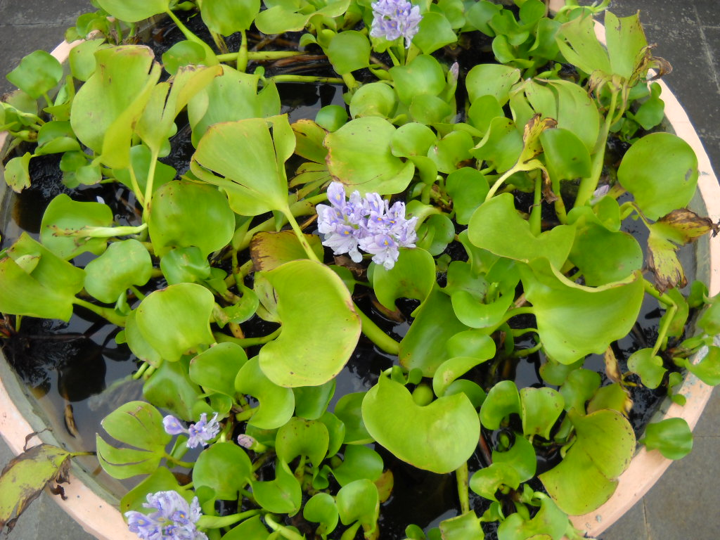 Eichhornia crassipes or Common Water Hyacinth